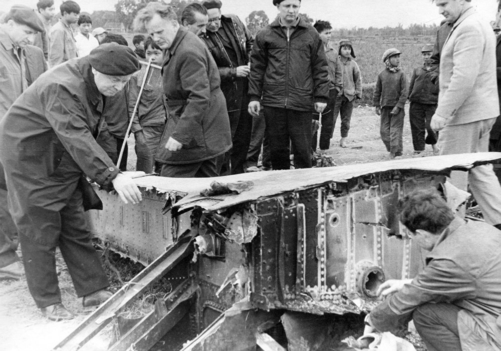 Debris of a downed U.S. Air Force Boeing B-52 in the vicinity of Hanoi, North Vietnam, 23 December 1972.